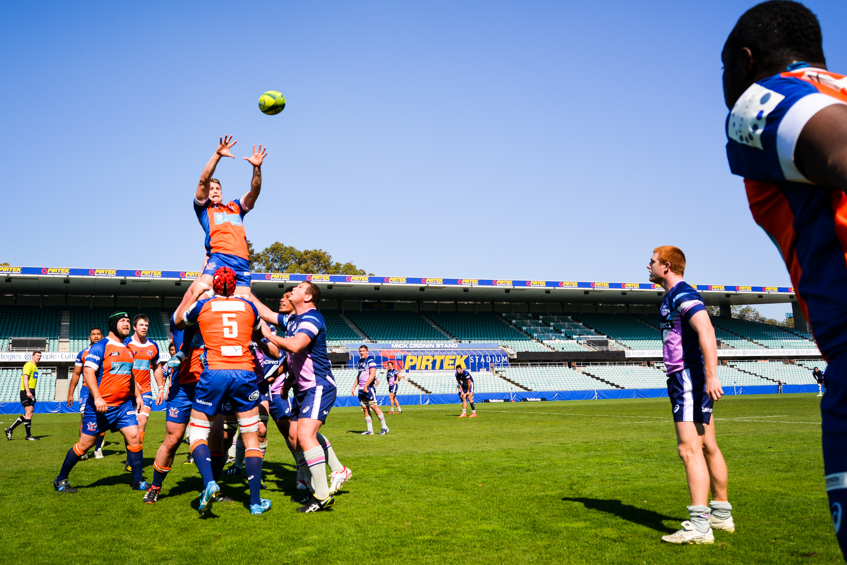 Greater Sydney Rams versus Melbourne Rising Round 8 National Rugby Championship